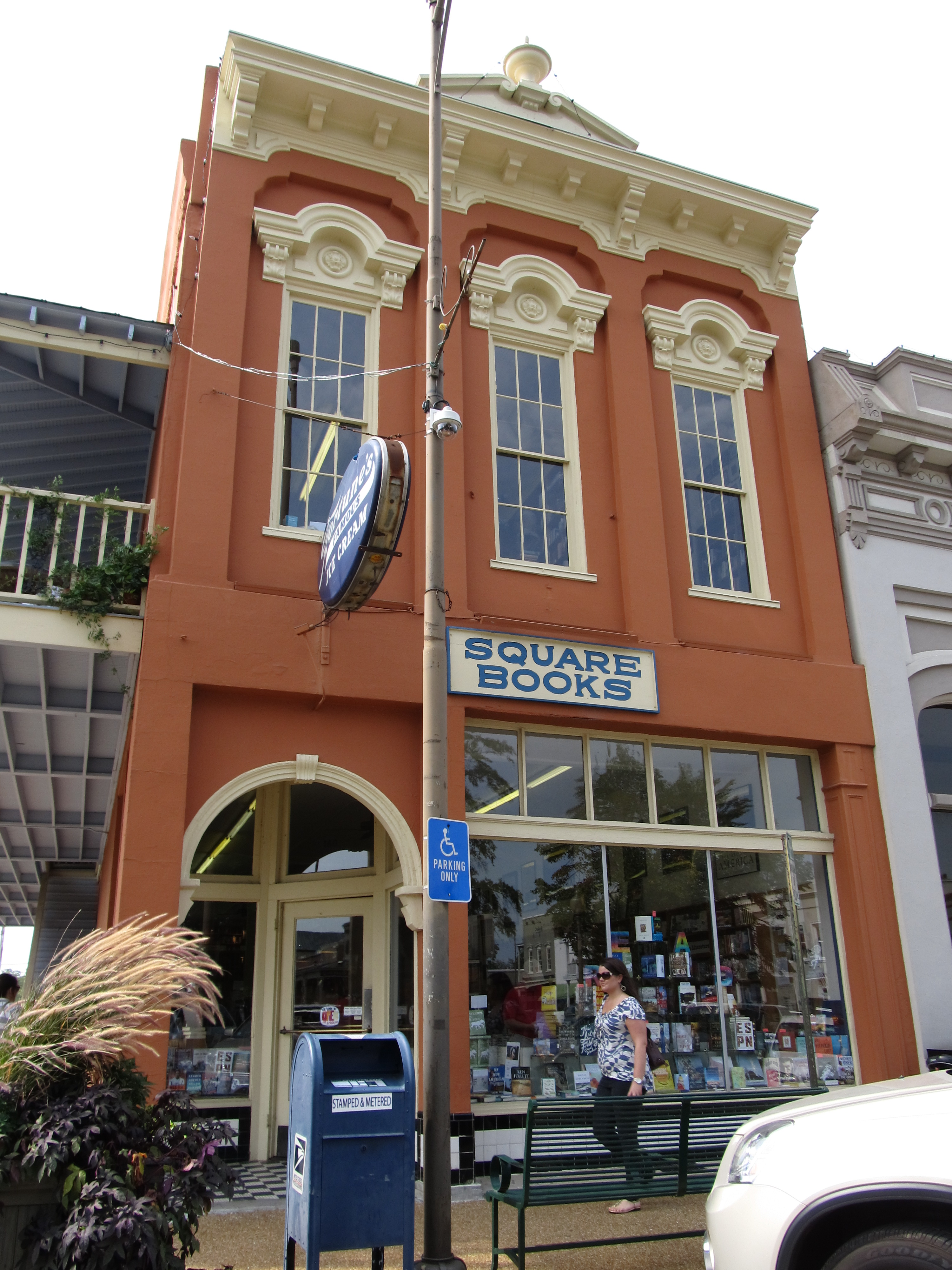 Square Books, a local bookstore founded in 1979, is consistently ranked among the best independent bookstores in the country. A sister store, Off Square Books, which is several doors down the street to the east, deals in used and remainder books and is the venue for a radio show called Thacker Mountain Radio, with host Jim Dees, that is broadcast state-wide on Mississippi Public Broadcasting. The show often draws comparisons to Garrison Keillor's A Prairie Home Companion for its mix of author readings and musical guests. A third store, Square Books Jr., deals exclusively in children's books and educational toys. Oxford is a city in, and the county seat of, Lafayette County, Mississippi, United States. Founded in 1837, it was named after the British university city of Oxford in hopes of having the state university located there, which it did successfully attract. As of the 2010 US Census, the population is 18,916. Oxford is the home of the University of Mississippi, founded in 1848, also commonly known as "Ole Miss." Oxford has been named by USA Today as one of the top six college towns in the nation. It is included in The Best 100 Small Towns in America. Lafayette County consistently leads the state rankings in the lowest unemployment rate per quarter. Oxford City Schools are ranked as "Star" schools, the highest ranking available, and Lafayette County school systems are consistently ranked as "5-star" systems. The courthouse square, called "The Square", is the geographic and cultural center of the city. In addition to the historic Lafayette County Courthouse, the Square is known for an abundance of locally owned restaurants, specialty boutiques, and professional offices, along with Oxford City Hall.